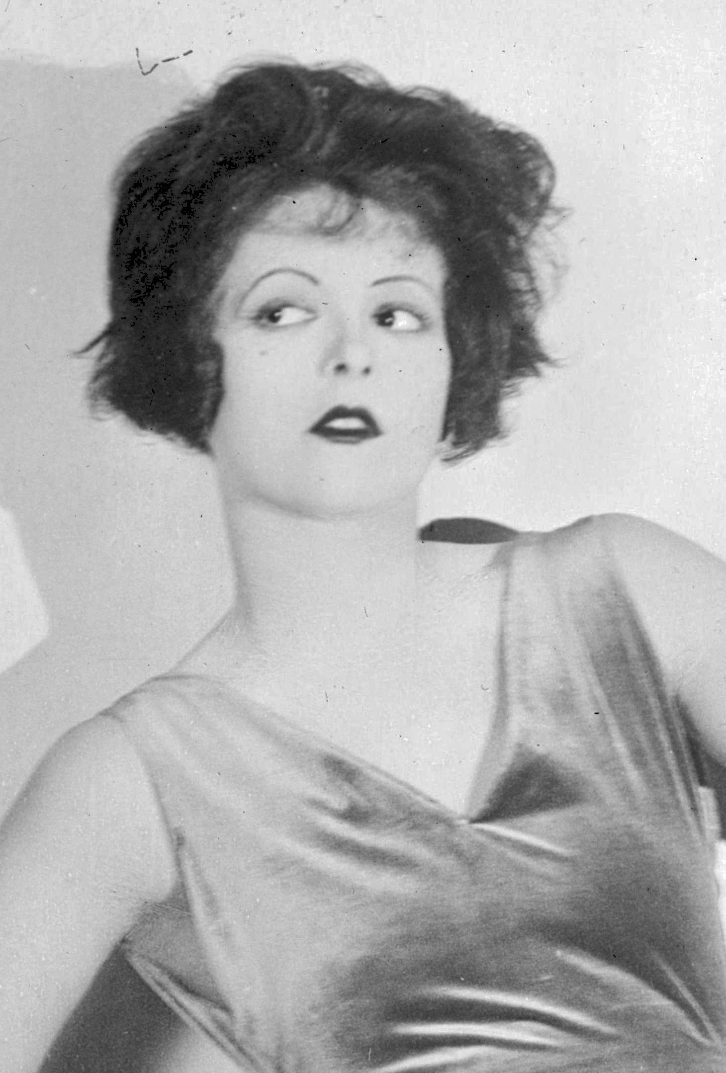 TITLE: Clara Bow CALL NUMBER: LC-B2- 5470-19[P&P] REPRODUCTION NUMBER: LC-DIG-ggbain-32426 (digital file from original negative) No known restrictions on publication. MEDIUM: 1 negative : glass ; 5 x 7 in. or smaller. CREATED/PUBLISHED: [no date recorded on caption card] CREATOR: Bain News Service, publisher. NOTES: Title from unverified data provided by the Bain News Service on the negatives or caption cards. Forms part of: George Grantham Bain Collection (Library of Congress). General information about the Bain Collection is available at FORMAT: Glass negatives. REPOSITORY: Library of Congress Prints and Photographs Division Washington, D.C. 20540 USA DIGITAL ID: (digital file from original neg.) ggbain 32426 CARD #: ggb2006007839